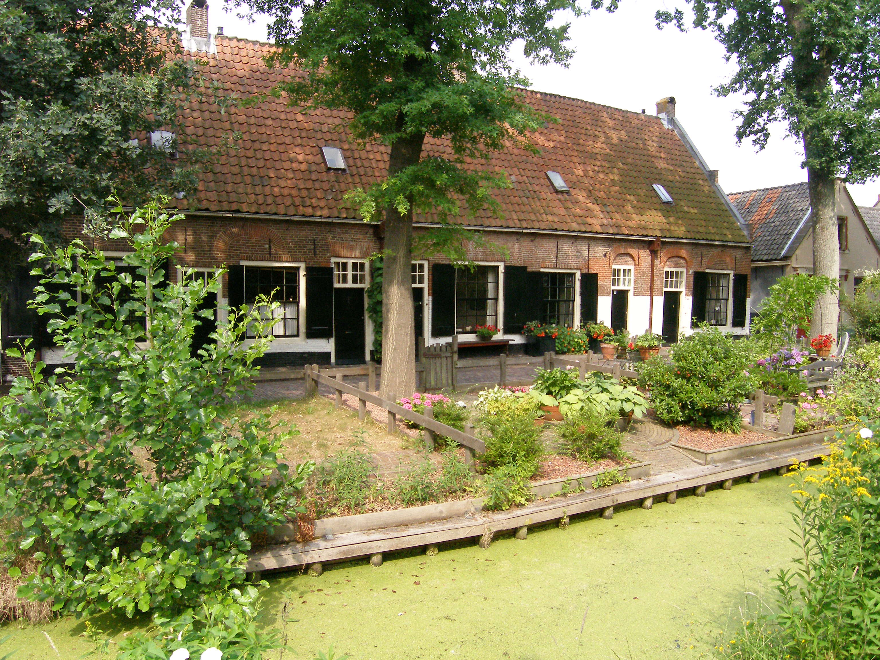 Lindengracht, a canal in Vreeland